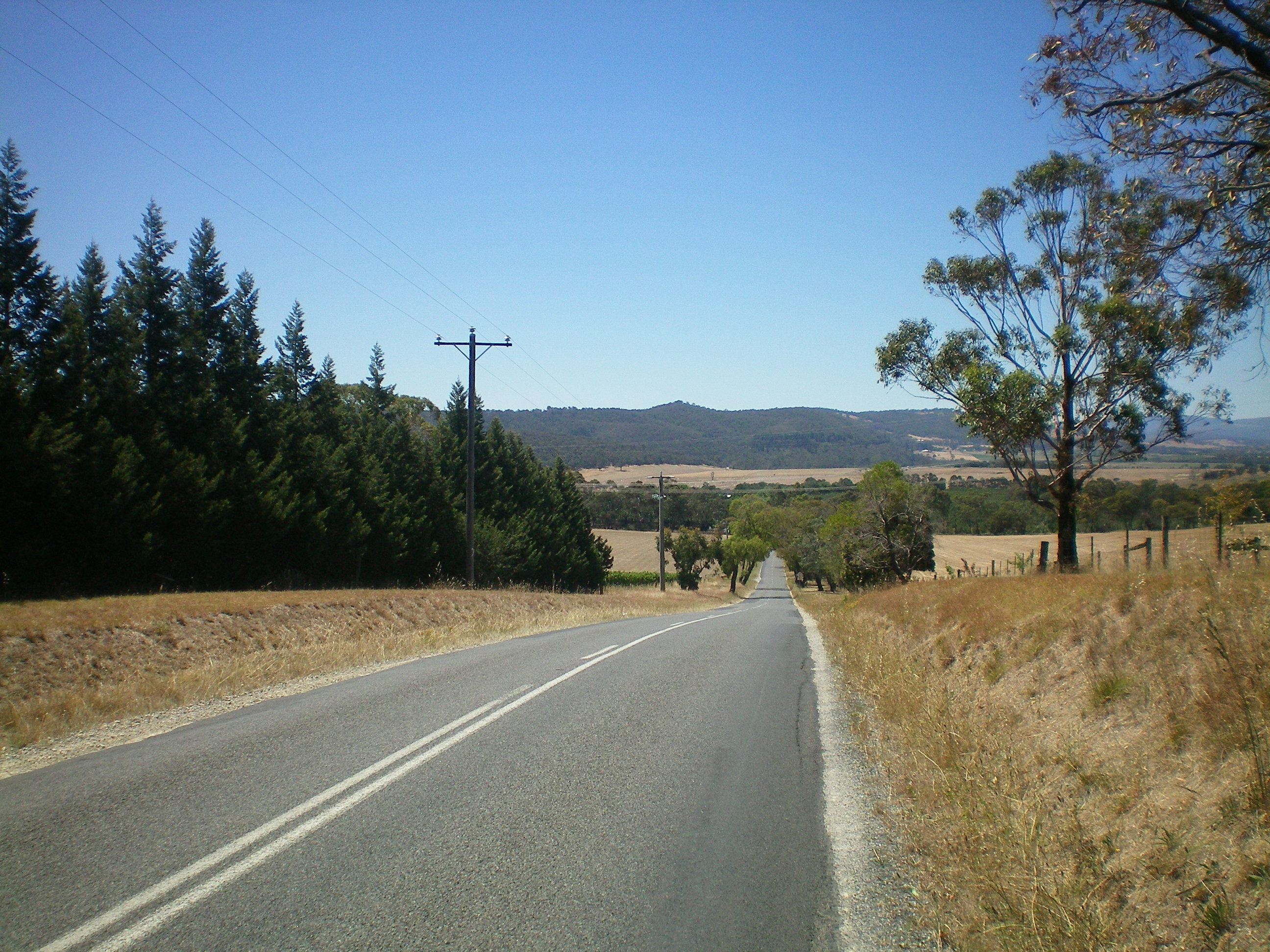 Major road in Chirnside Park